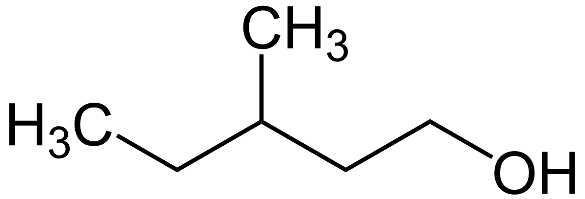 Structural formula of 3-methyl-1-pentanol (isomer of hexanol)